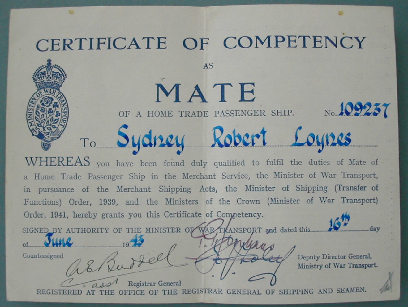 MatesCertificate-MN